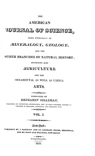 Cover page of the inaugural issue of The American Journal of Science, published in 1818. Professor Benjamin Silliman of Yale College founded the journal. Silliman was a professor of chemistry and mineralogy at Yale. Courtesy of the Yale University Manuscripts & Archives Digital Images Database, Yale University, New Haven, Connecticut. Retouched by MarmadukePercy.